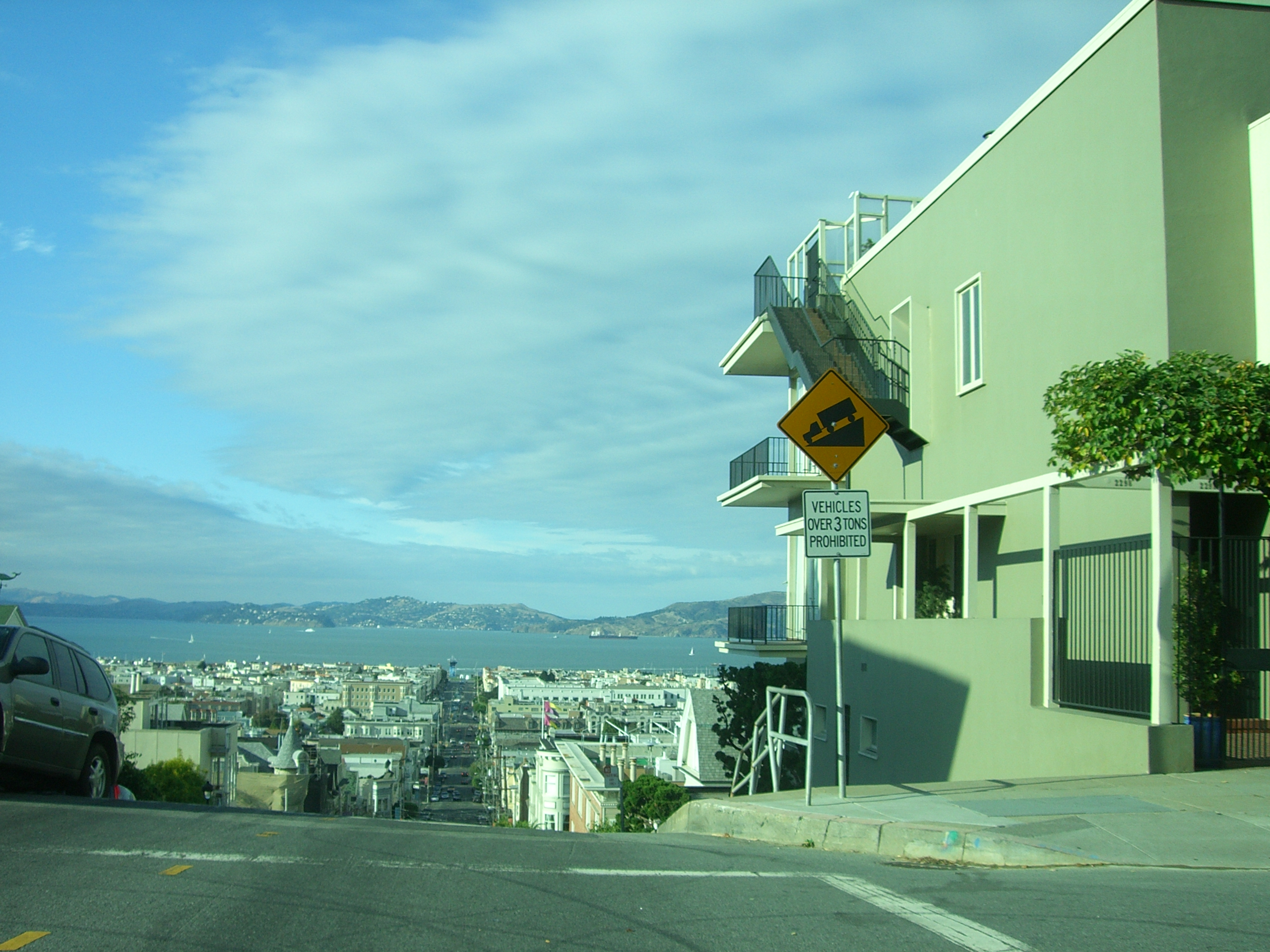 San Francisco, California, USA: San Francisco Bay and Marin County across the water from Fillmore Street. Taken 10/3/2006 by Daniel J. McKeown.